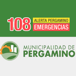 Alerta Pergamino Logo